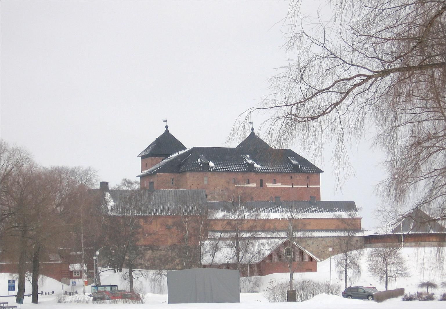 Castle of Häme in Winter, Hämeenlinna, Finland